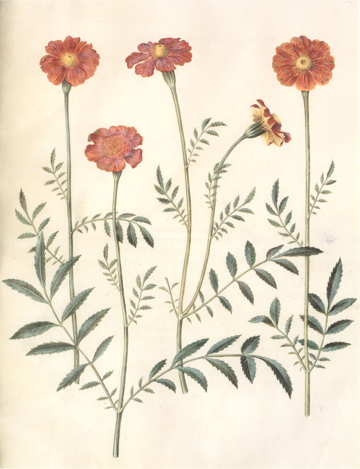 Tagetes erecta and Tagetes patula, gouache on vellum, in: Gottorfer Codex